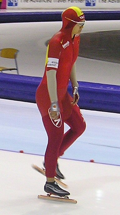 Hui Ren (CHN) at a World Cup in Thialf (Heerenveen, The Netherlands)